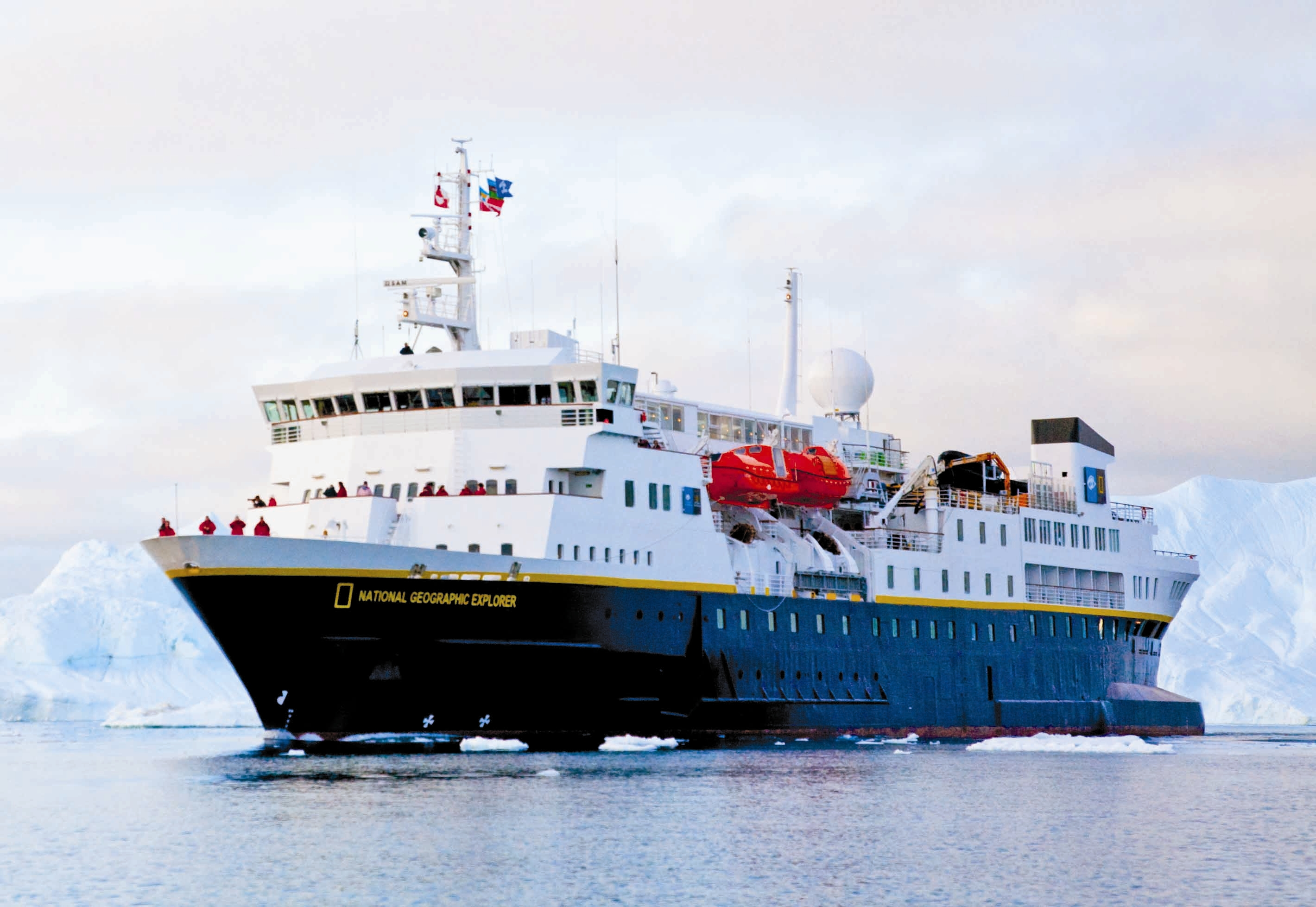 Ilulissat, Arctic, Greenland